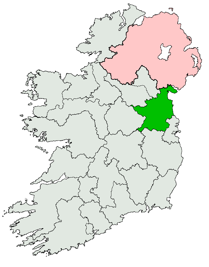 Map depicting the former Irish electoral constituency of Louth-Meath, created under the Government of Ireland Act 1920 and abolished under the Electoral Act of 1923.